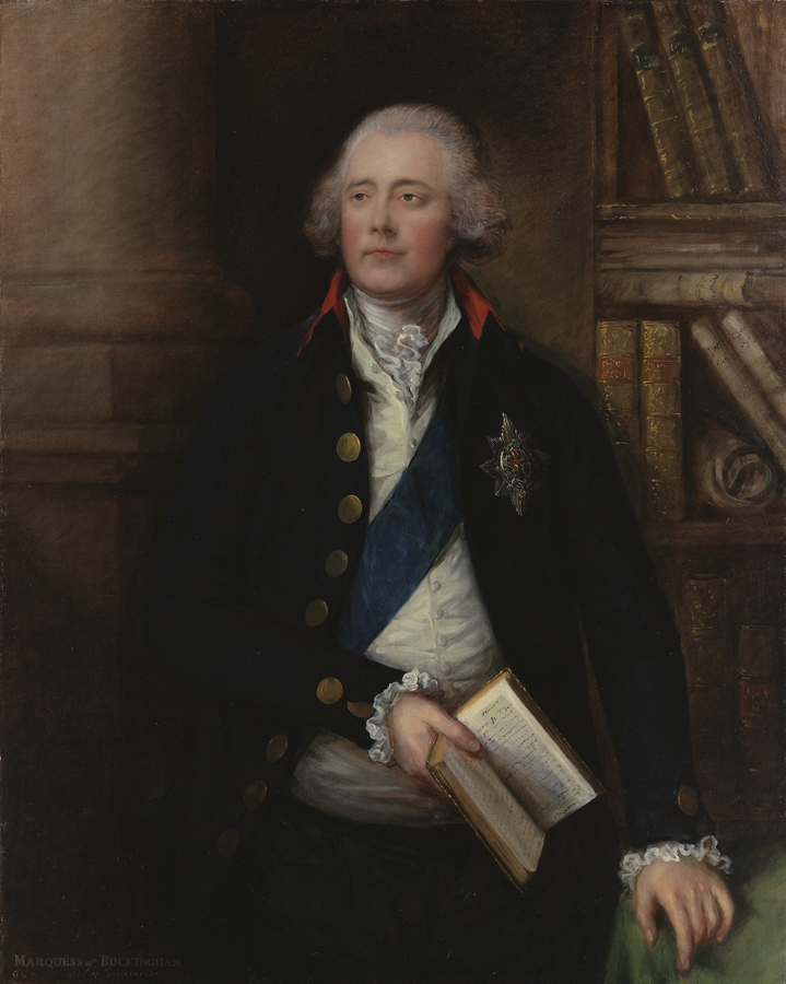 George Nugent-Temple-Grenville, 1st Marquess of Buckingham (1753-1813)